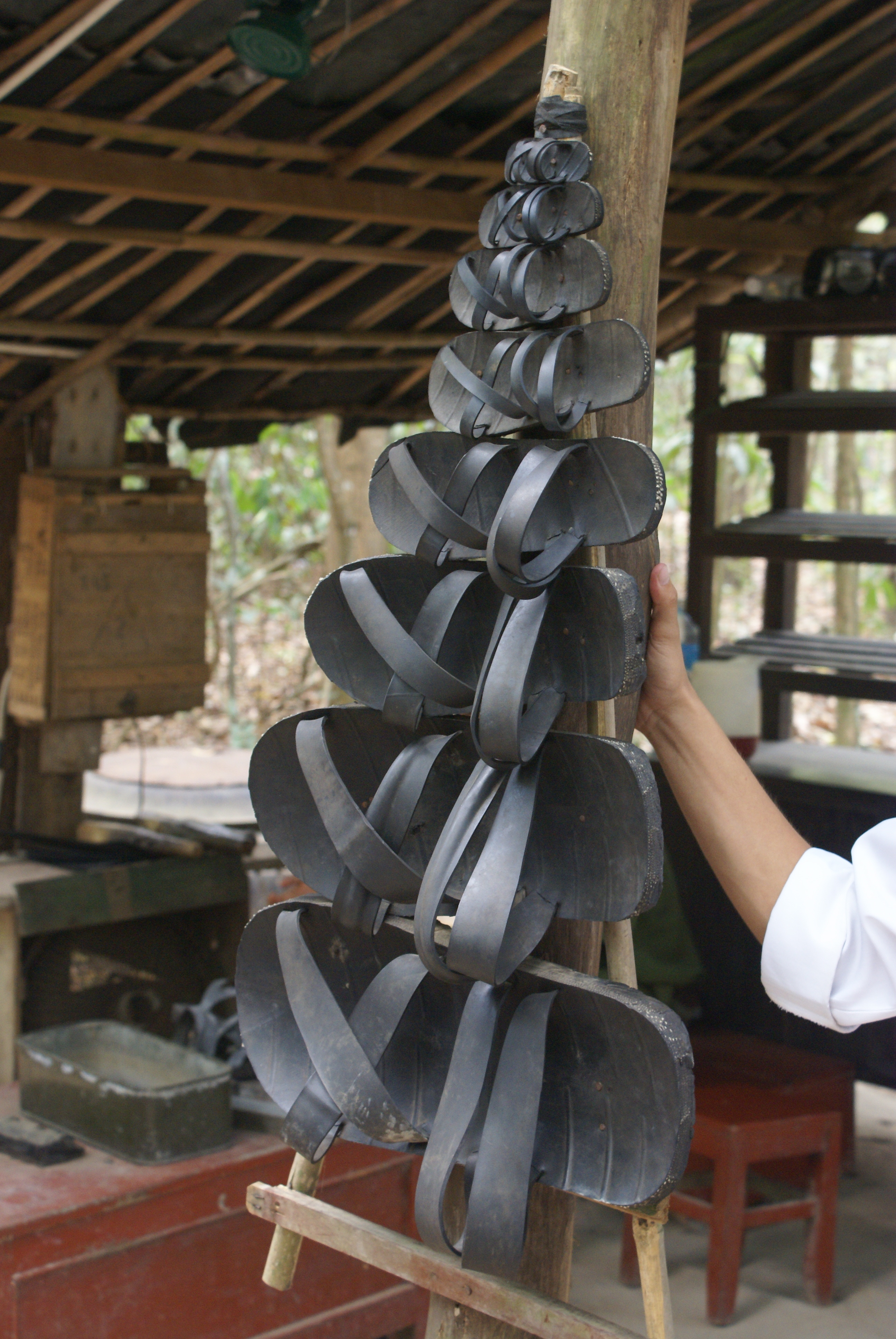 The Vietcong wore sandals made from old truck tires. Since they left revealing suntan-marks when they were worn during the day the Vietcong only wore them at night - since Vietcong soldiers were heavily recruited from the Vietnamese villages they didn't want to leave a single hint for the US Army pointing them to "suspicious" villagers.